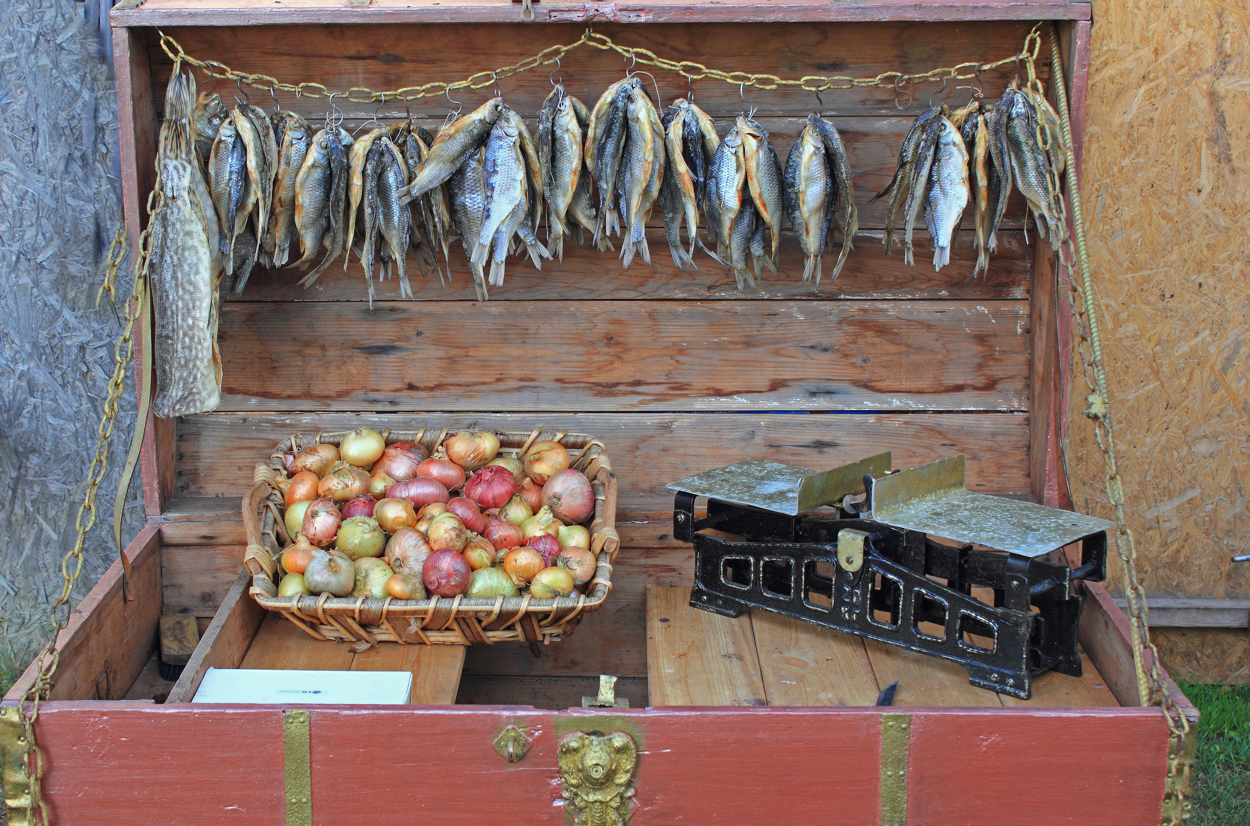 Freshly picked organic onions and dried fish for sale on road-side stand of farmer family. Fishes are catched from Peipsi lake. Onion road (Sibulatee) at Kolkja Village, Tartu County, Estonia.